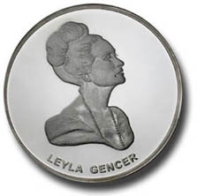 Commemorative coin minted in honor of Leyla Gencer (1928-2008) by the Turkish Government in 2004.